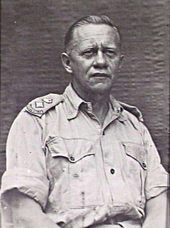 MOROTAI, 1945-10-03. ADVANCED HEADQUARTERS AMF. QX22008 LIEUTENANT COLONEL F. W. WHITEHOUSE SORE I (INT).